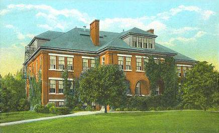 Morrill Hall, University of New Hampshire, Durham, NH; from a c. 1920 postcard.